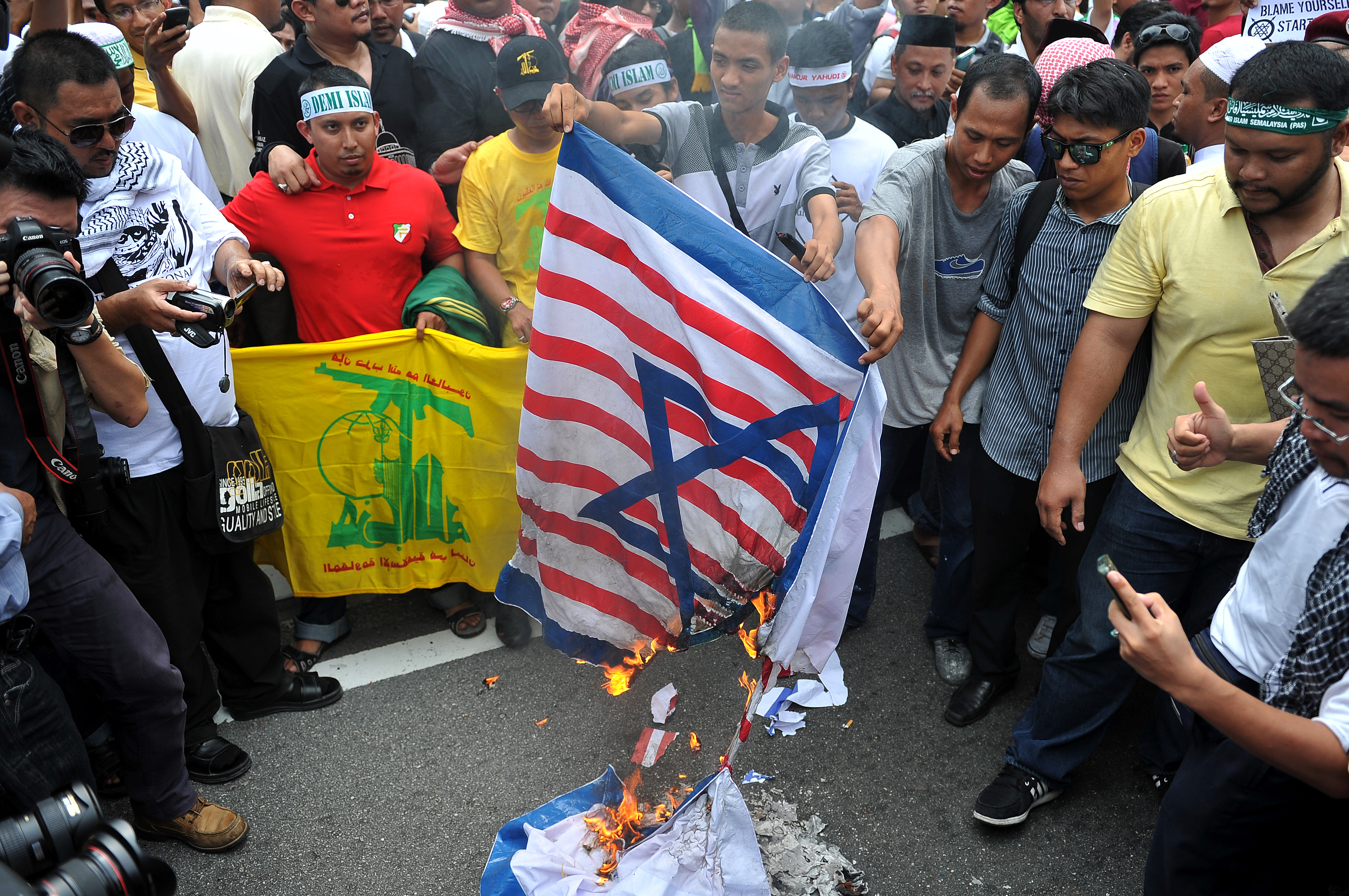 Kuala Lumpur, 21/09/2012. Protesters burn the Zionist flag during a protest against the anti-Islam film "Innocence of Muslims" in front of US embassy..Pic FIRDAUS LATIF